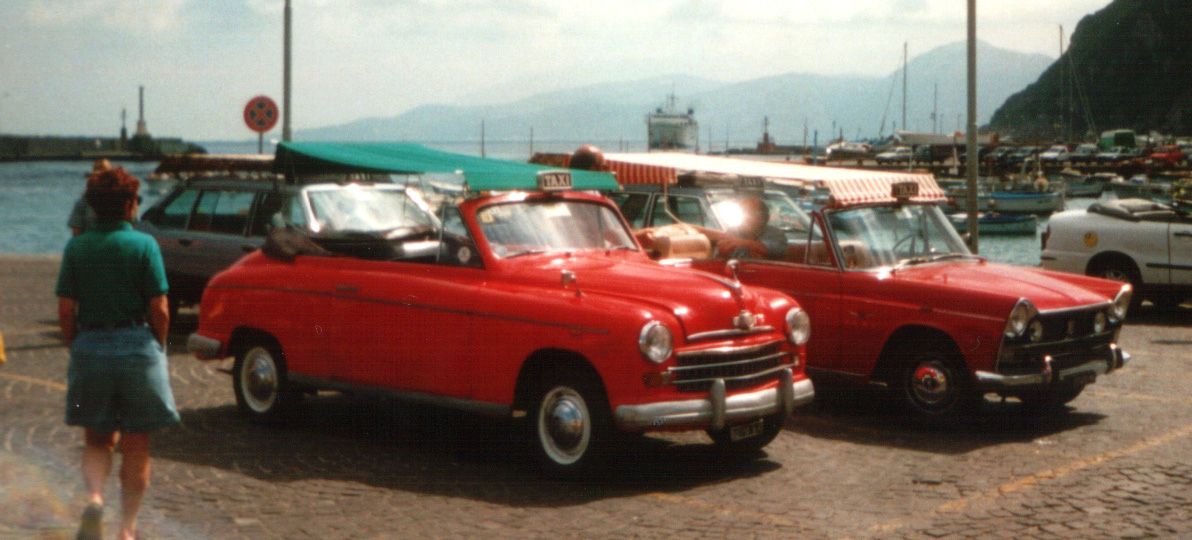 Taxicabs at Capri, Italy The car in the background is a FIAT 1500/1800. The older car in the foreground is a FIAT 1400.